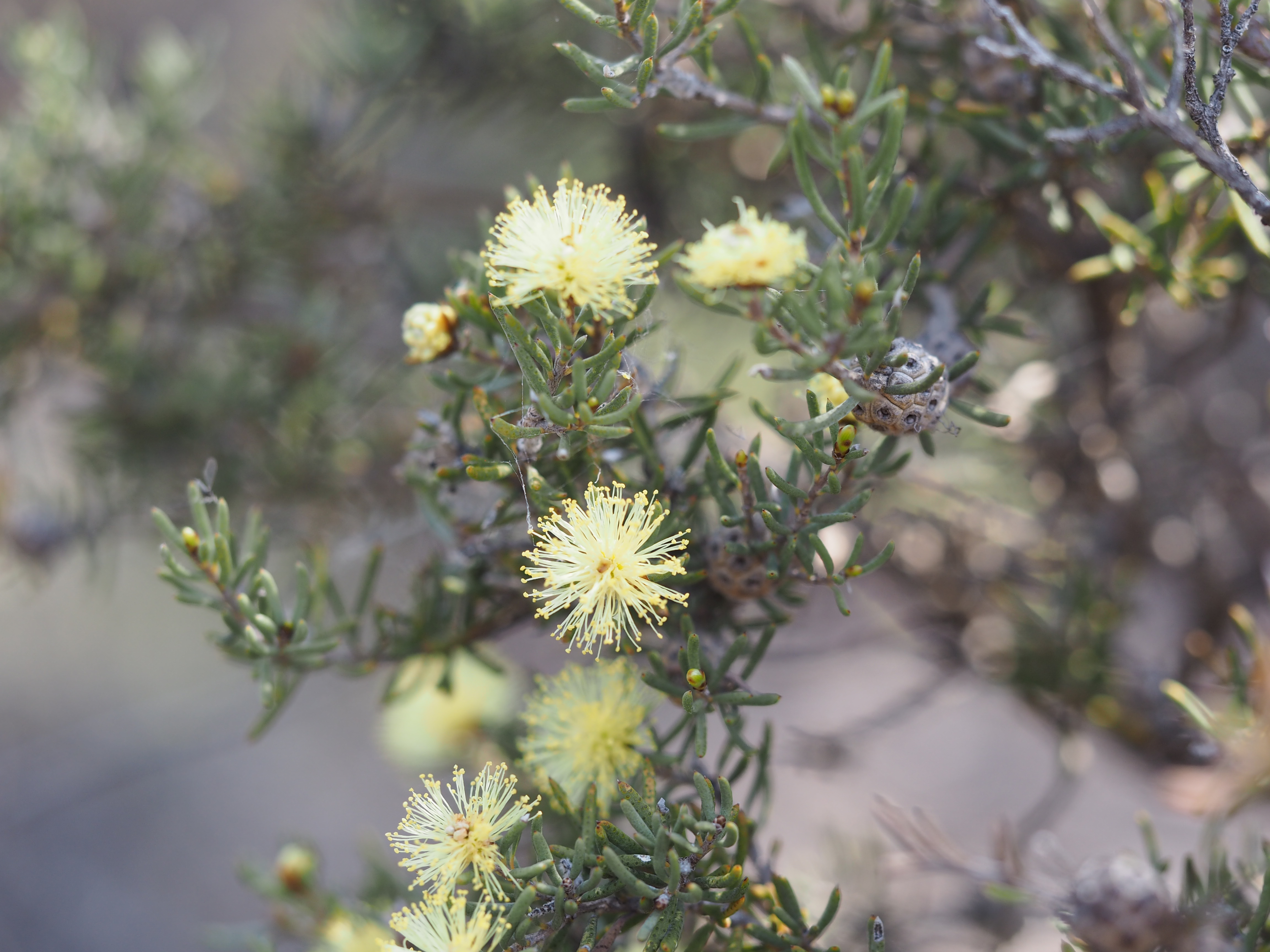 Melaleuca johnsonii growing 10 km E of Hyden